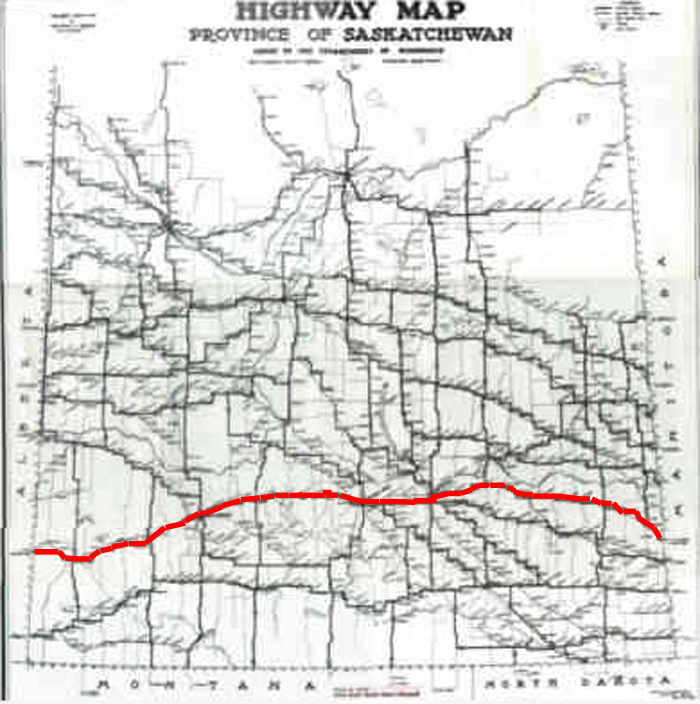 TransCanada Highway Marked as a red line on a small 1926 Highway Map